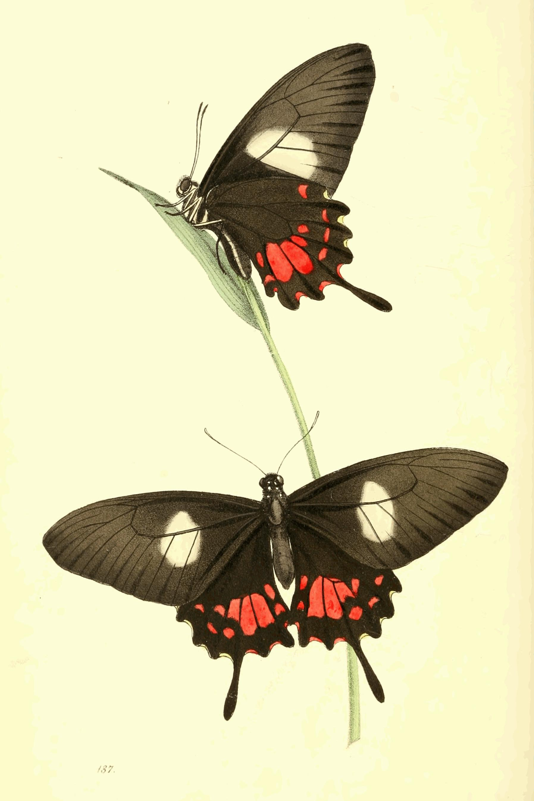 Plate 137. Papilio Polybius. Modern accepted name (2012) is Papilio torquatus polybiuspolybius.